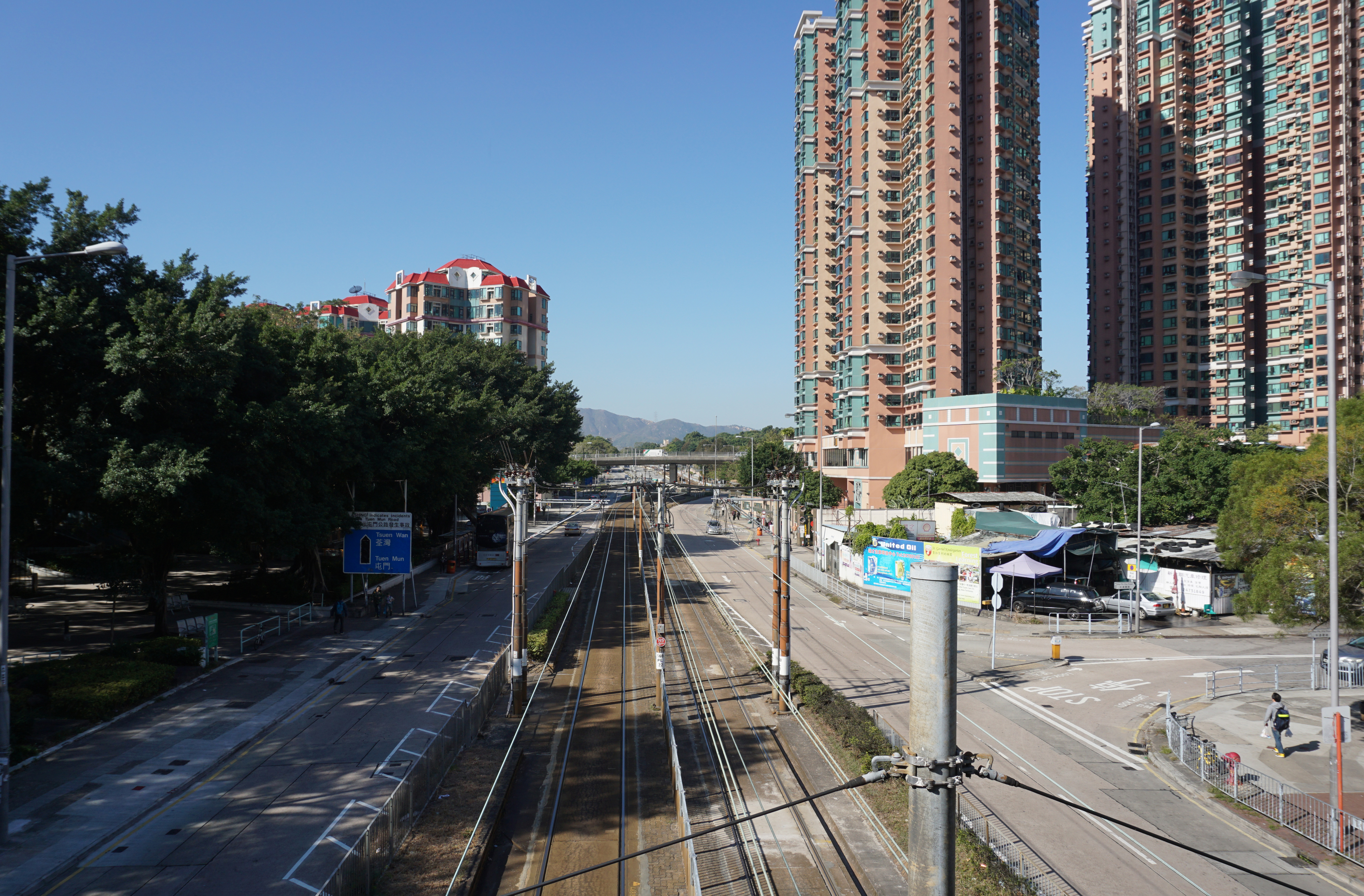 Castle Peak Road in Ping Shan, Hong Kong.